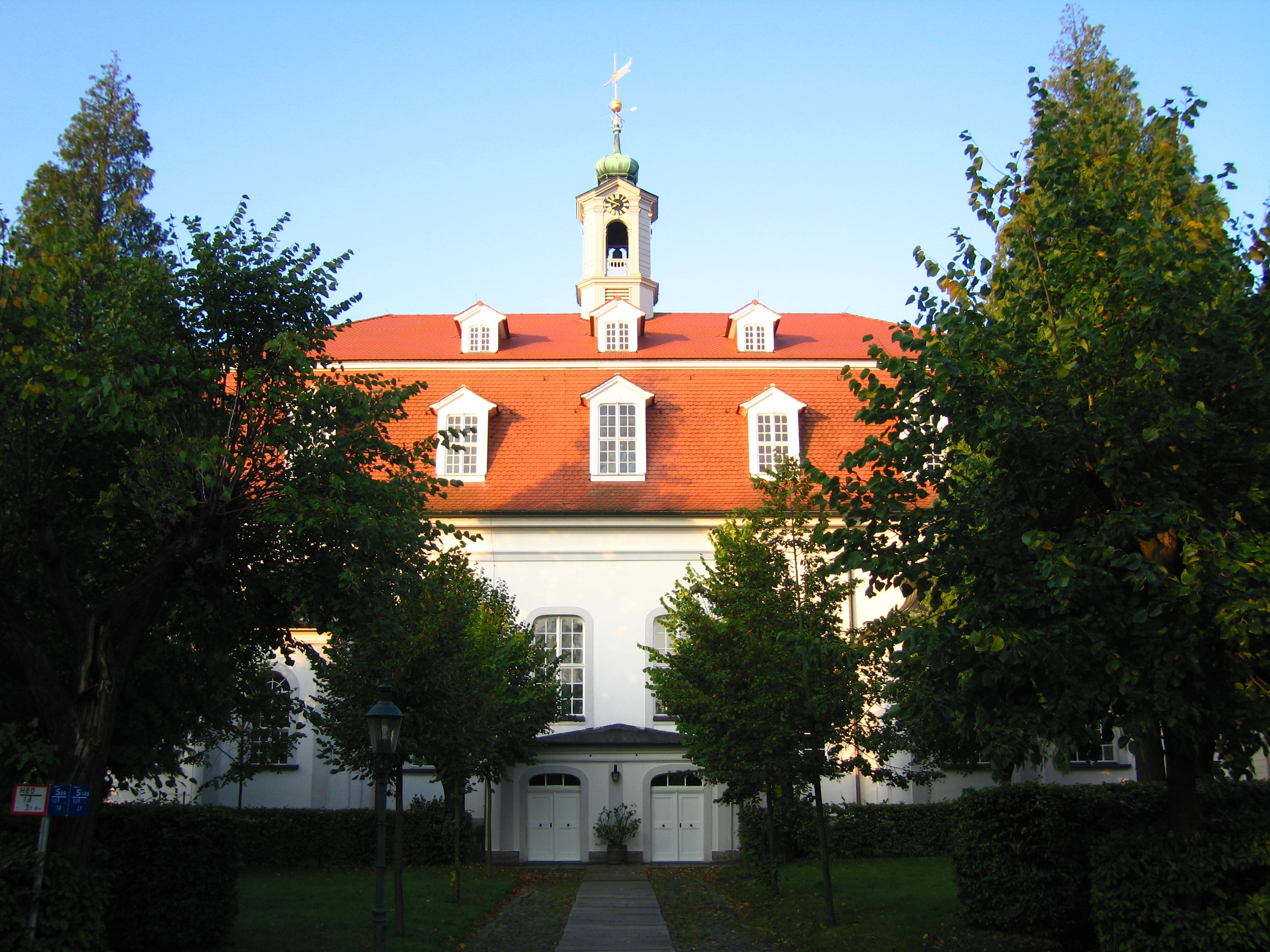 Moravian Church in Herrnhut